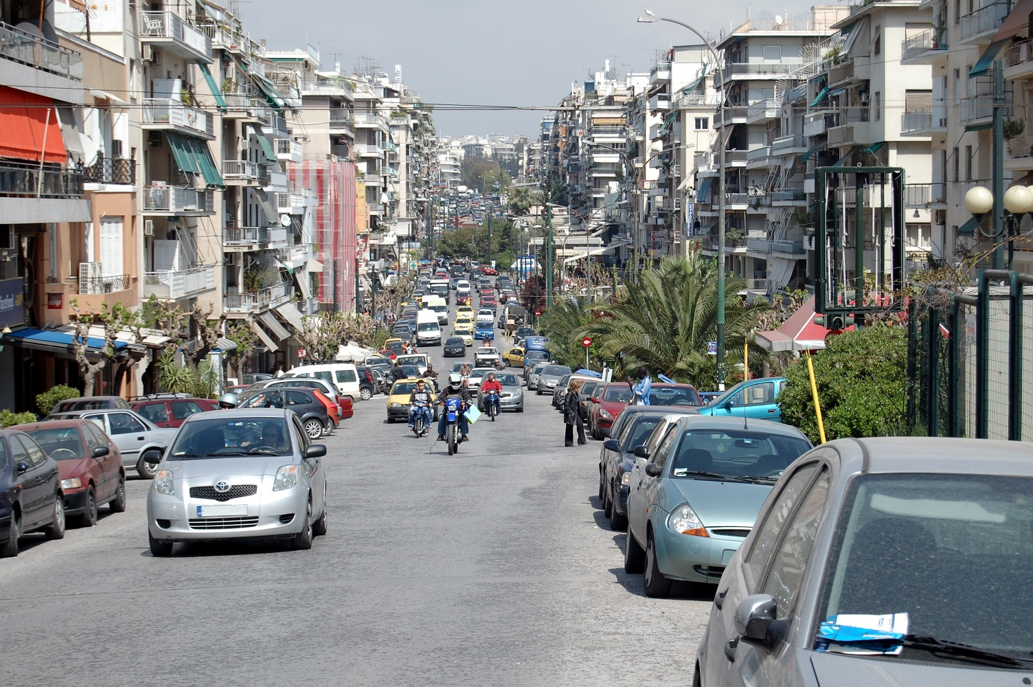 Ymittos Avenue, a main street in the Pagrati quarter of Athens.